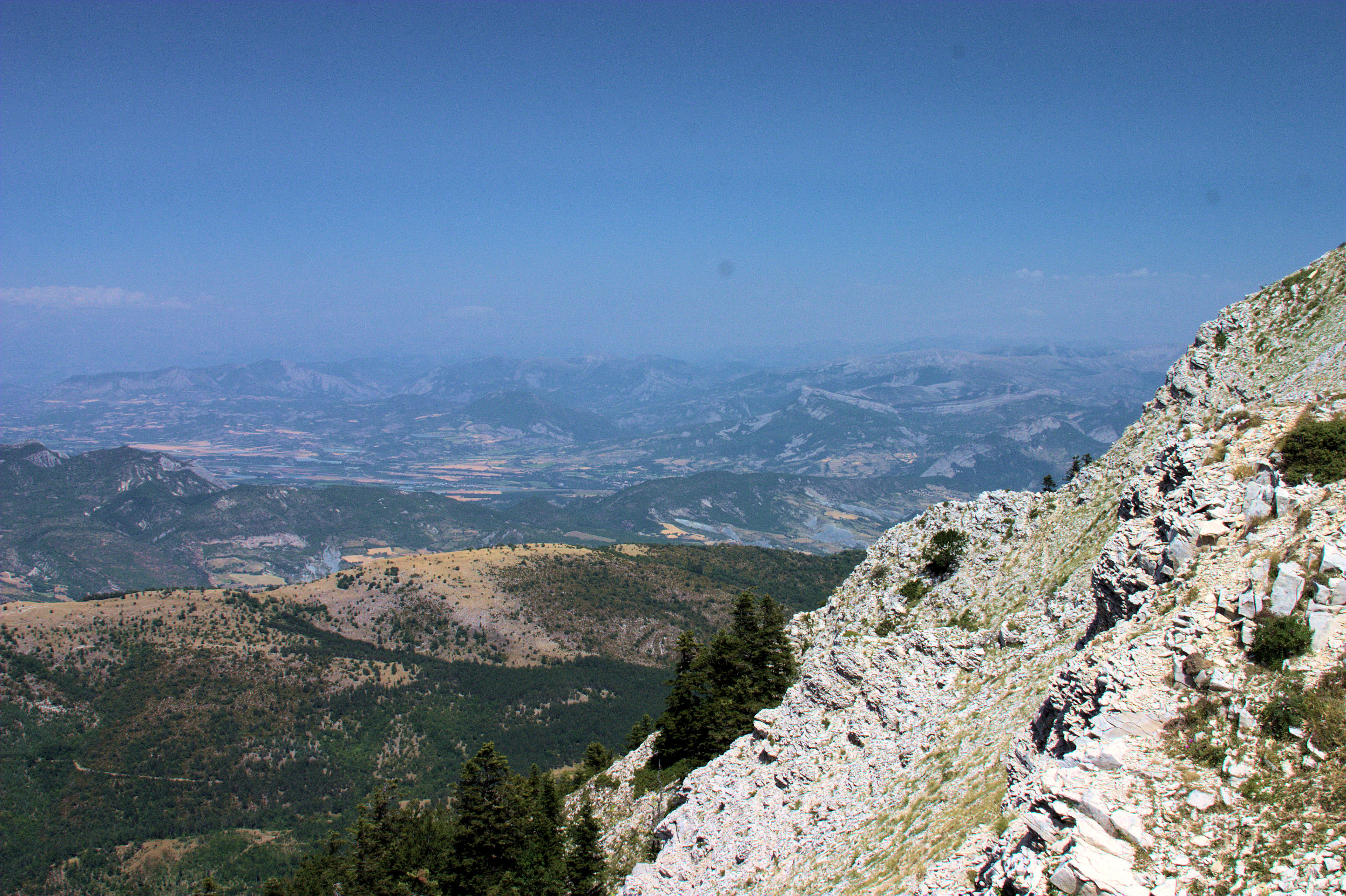 North view from the Lure mountain